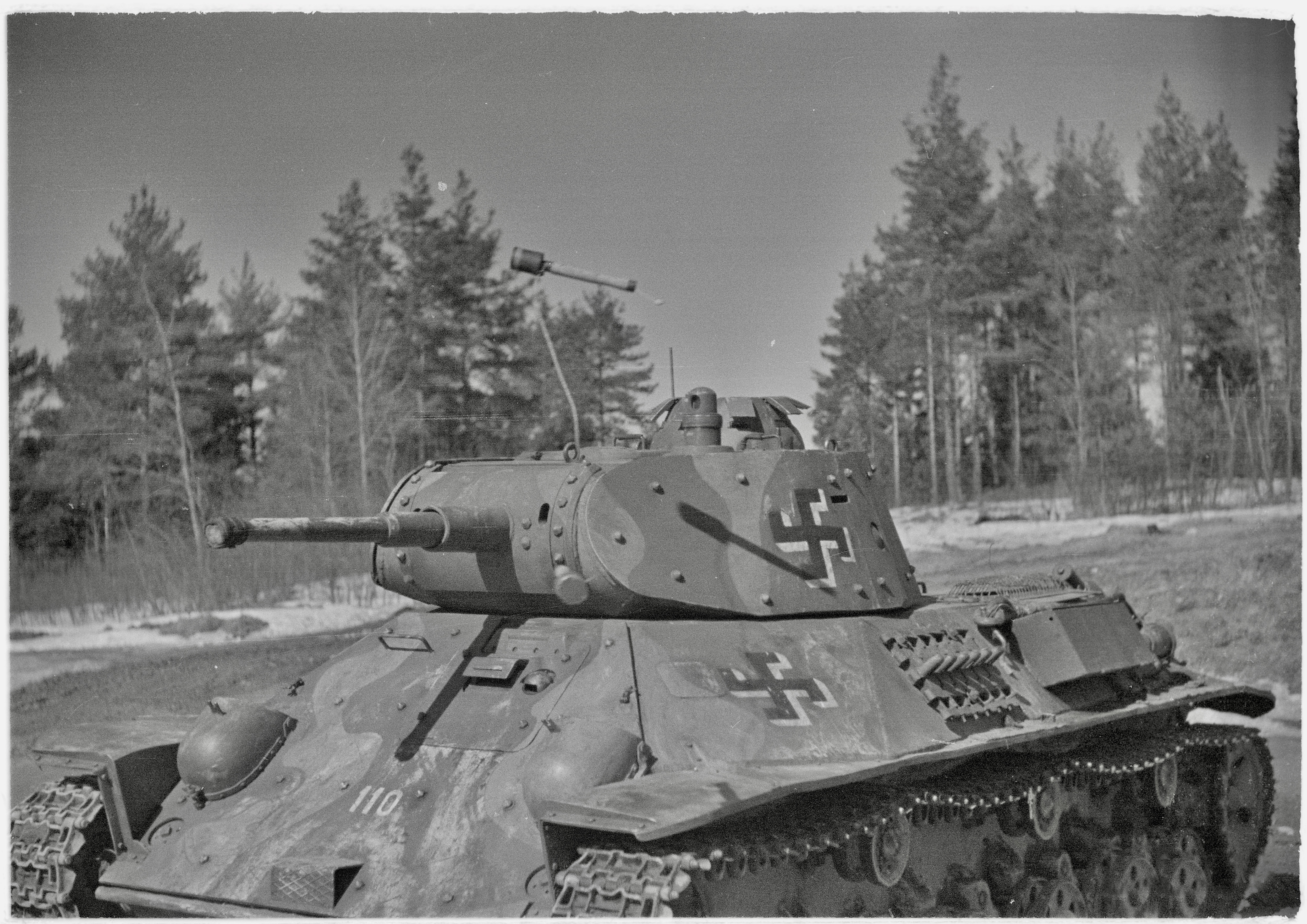 Captured Soviet T-50 tank in Finnish service. Photo shows two anti-tank grenades tied by a string being thrown at the tank, either during training or testing.